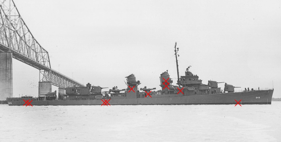 Location of hits on USS Albert W. Grant (DD-649) during the Battle of Surigao-Strait 25 October 1944